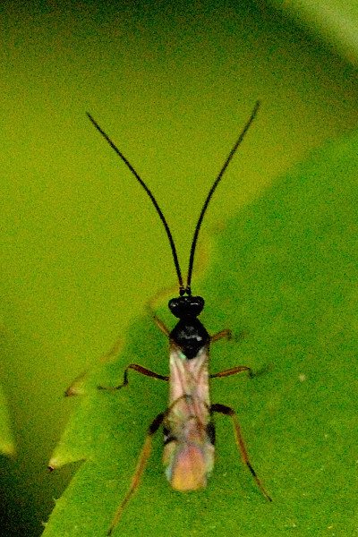 Zele caligatus from Commanster, Belgian High Ardennes .